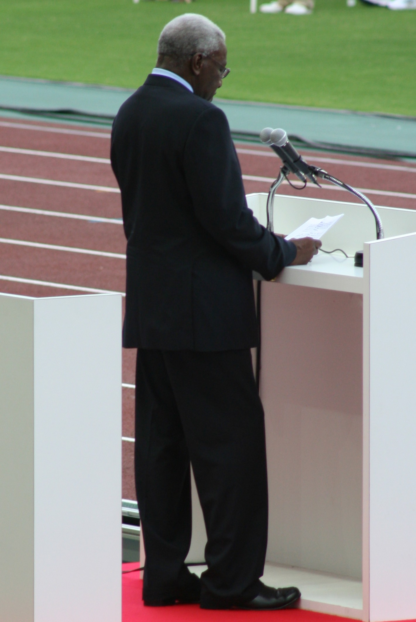 World Athletics Championships 2007 in Osaka - IAAF president Lamine Diack during opening ceremony